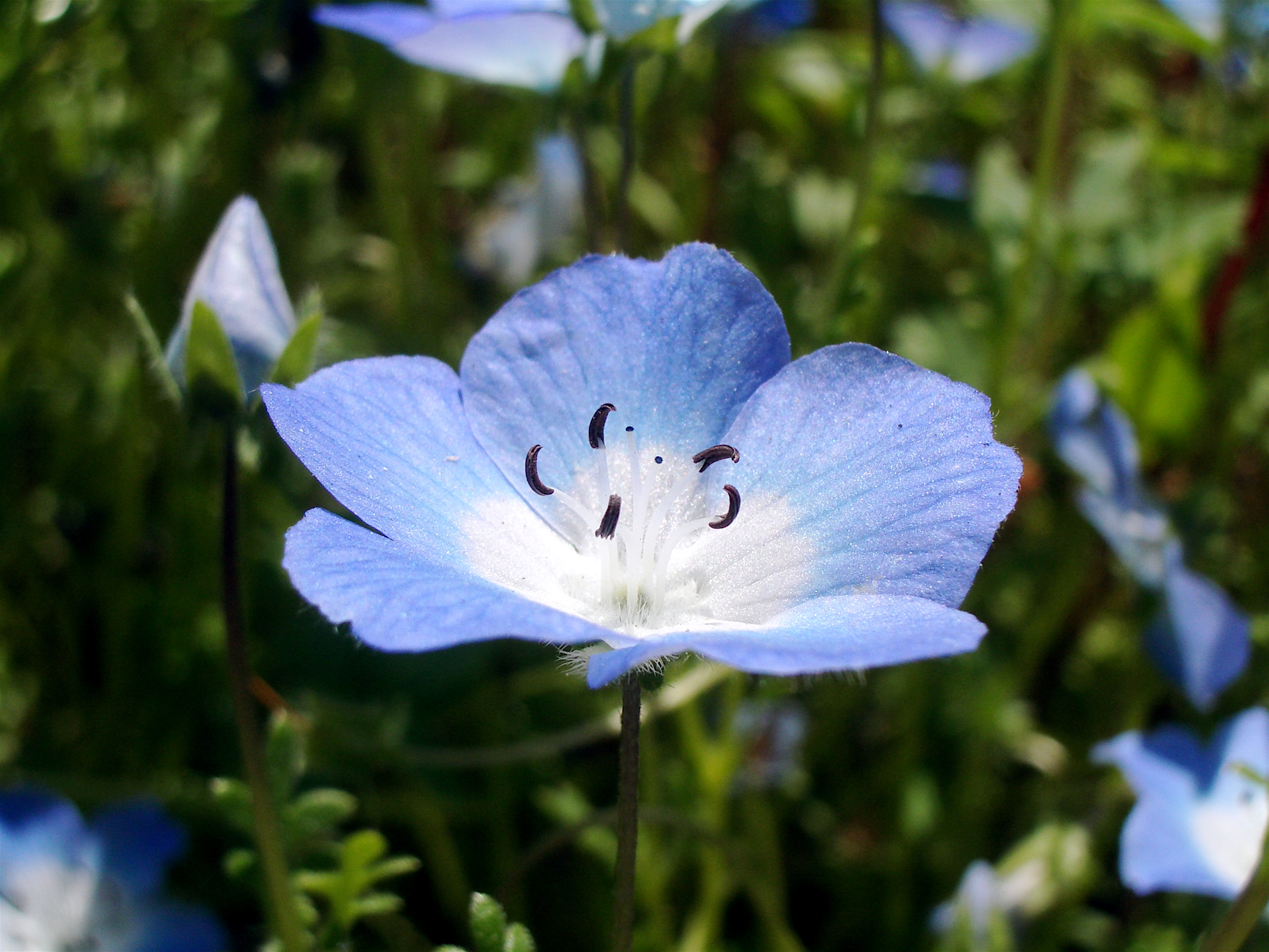 Photograph of Baby Blue Eyes (Nemophila menziesii)